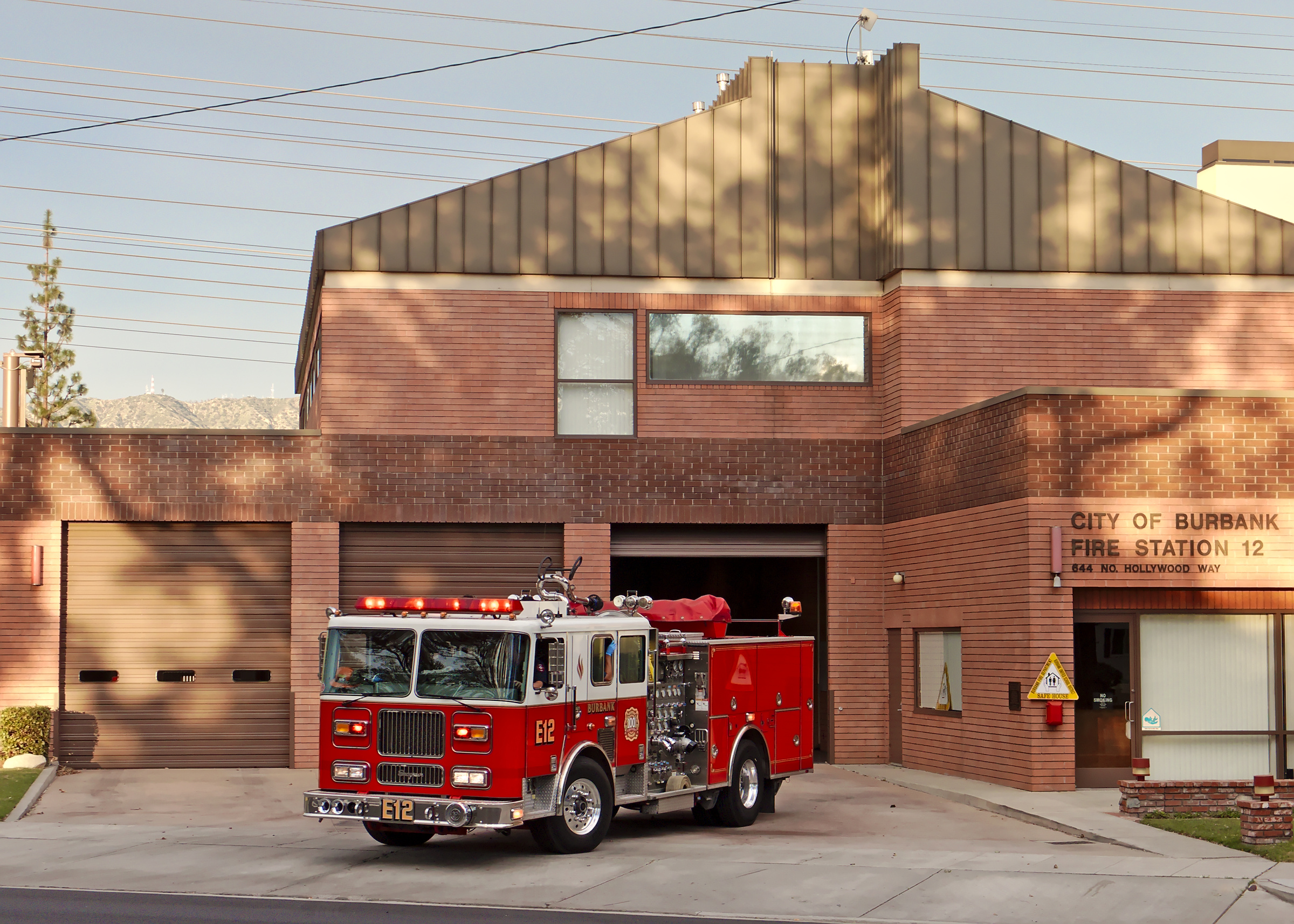 Departing fire truck at Fire Station 12 in Burbank, California.